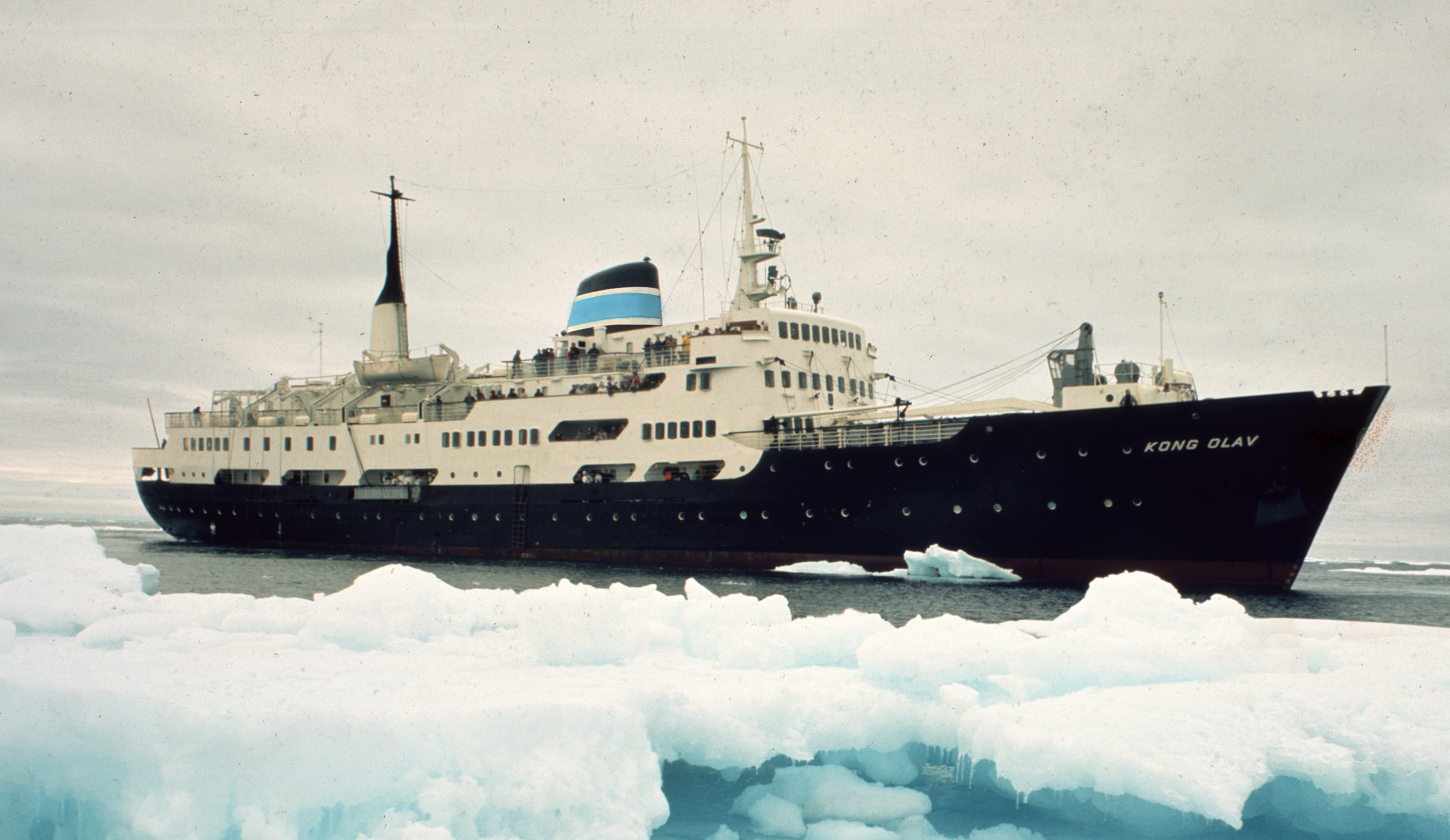 Norwegian passenger ship MS Kong Olav.